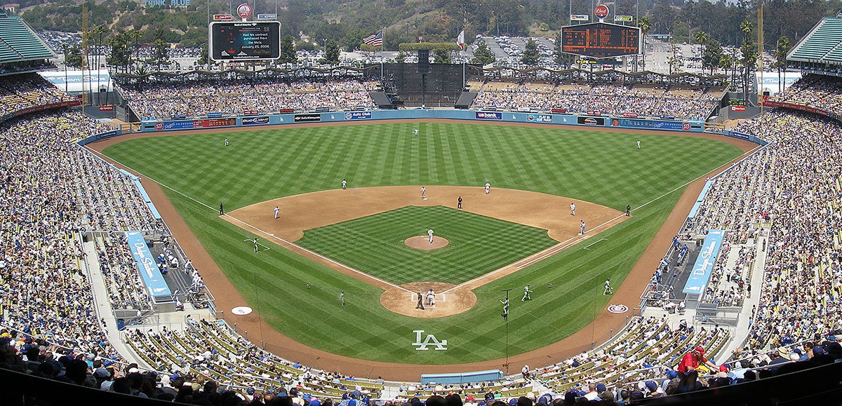 Panorama of Dodger Stadium in Los Angeles (taken from third or fourth deck). Teams pictured are the Chicago Cubs (grey) and the Los Angeles Dodgers (white). Game pictured is played on the 50th anniversary of the Dodgers being granted permission to move to the Los Angeles area.